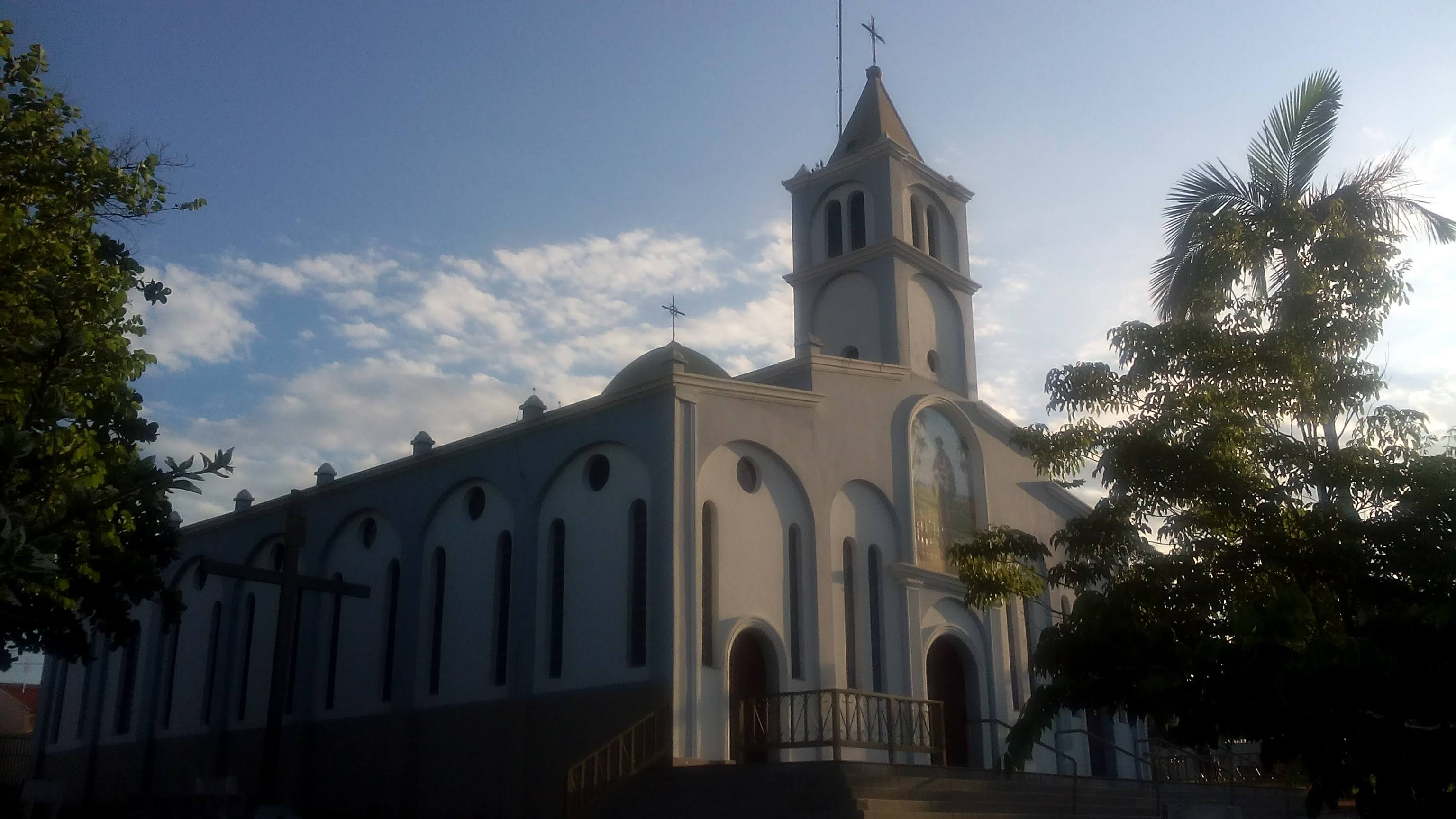 St. Benedict Chapel, Laranjal Paulista.